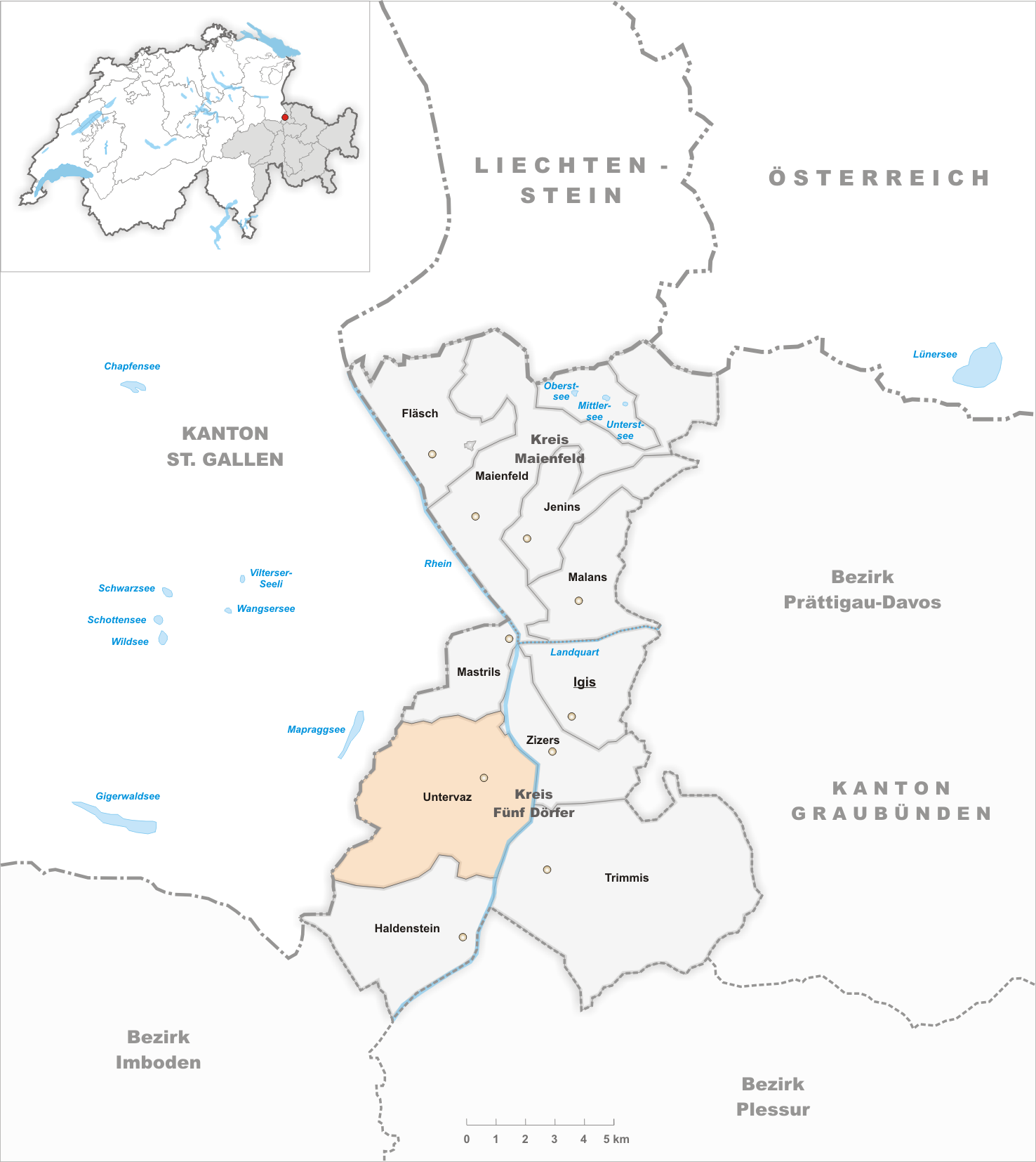 Municipality Untervaz